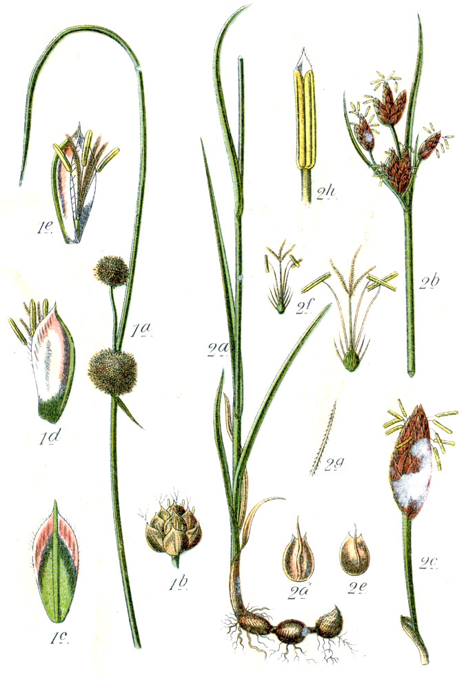 1. Scirpoides holoschoenus subsp. holoschoenus, syn. Cyperus holoschoenus (L.) Missbach & E.H.L.Krause, nom. ill. 2. Bolboschoenus maritimus (L.) Palla, syn. Cyperus maritimus (L.) E.H.L.Krause Original Caption 1. Kugel-Simse, Cyperus holoschoenus 2. Strand-Simse, C. maritimus